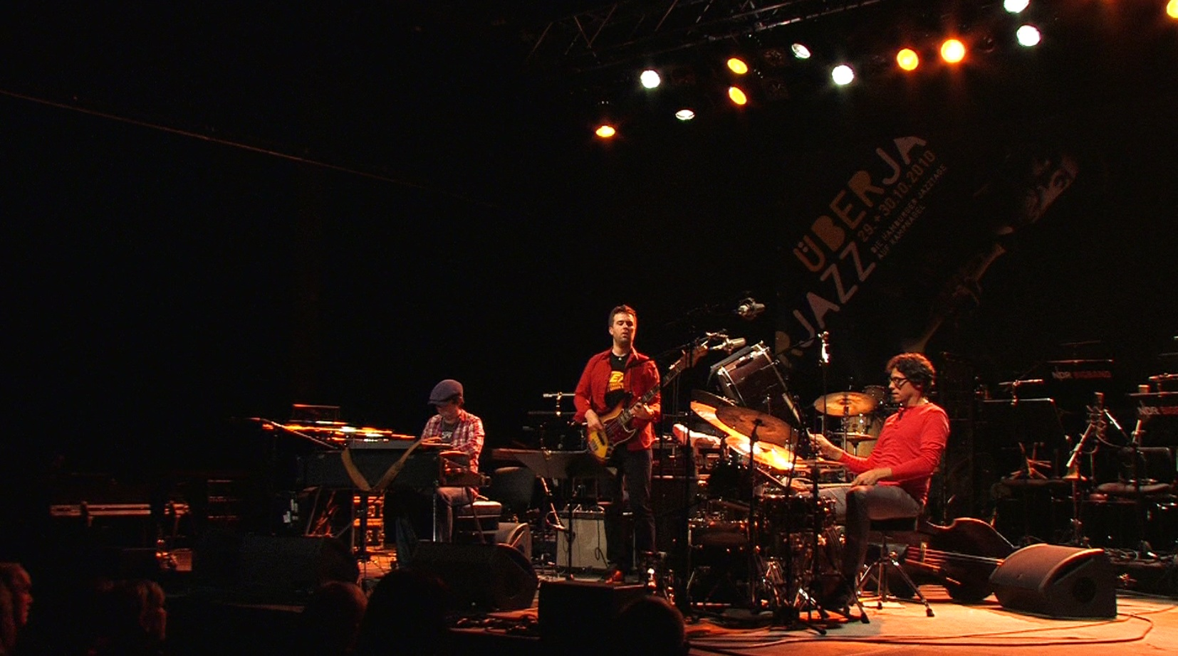 Hammer Klavier Trio @ Überjazz, die 7. Hamburger Jazztage on 30. October 2010 at Kampnagel in Hamburg, Germany.